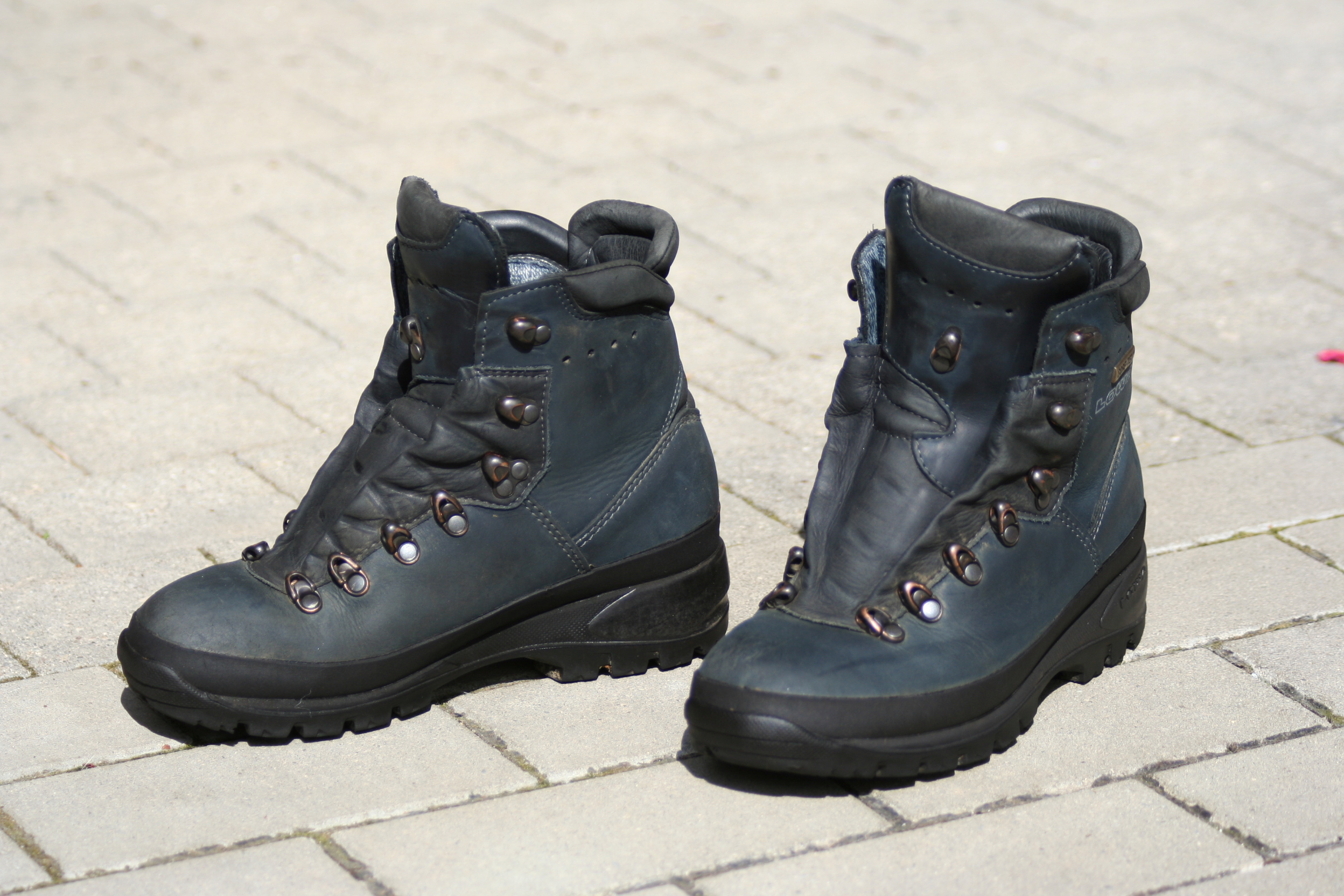 Climing boots